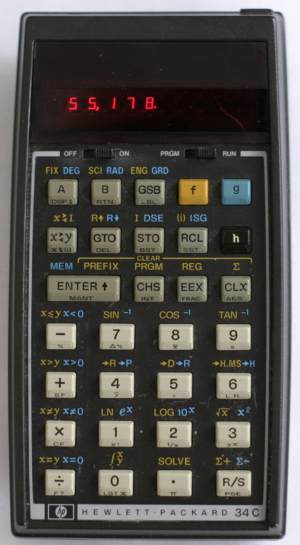 Author: Dave Mody